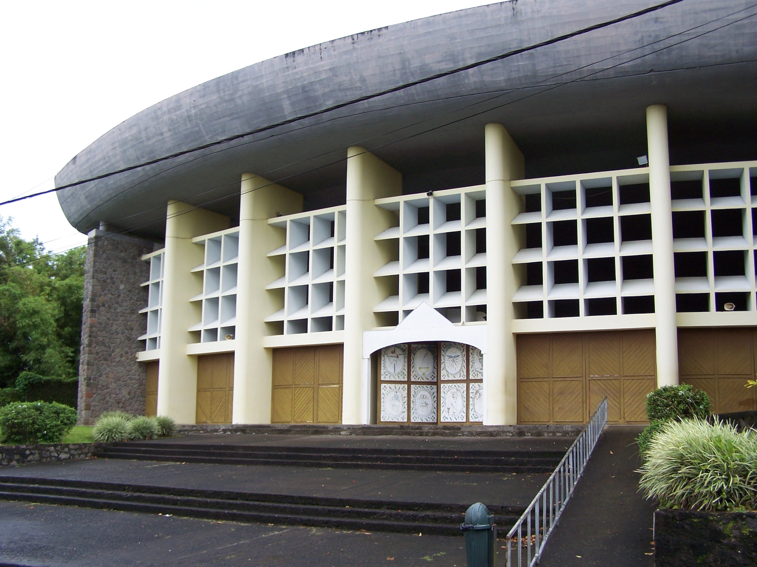 Chapelle du Vœu-de-Matouba à Saint-Claude, Guadeloupe